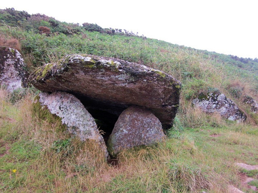 King's Quoit Manorbier Pembrokeshire UK